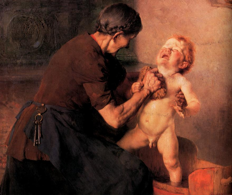 Greek: ΨυχρολουσίαCold Showerlabel QS:Lel,"Ψυχρολουσία"label QS:Len,"Cold Shower"